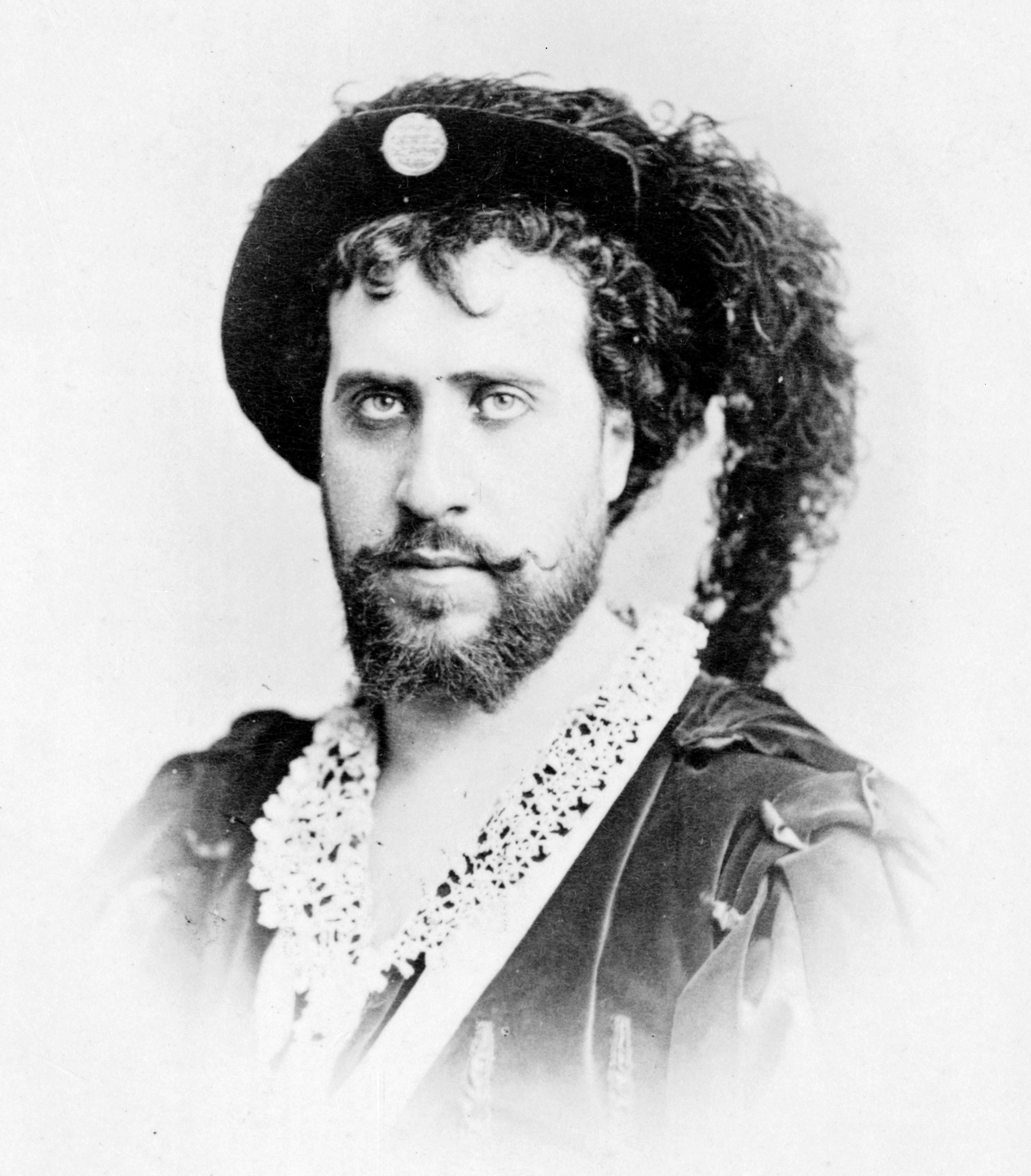 French opera singer Jean-Baptiste Faure (1830-1914) as Hamlet in the opera by Ambroise Thomas.